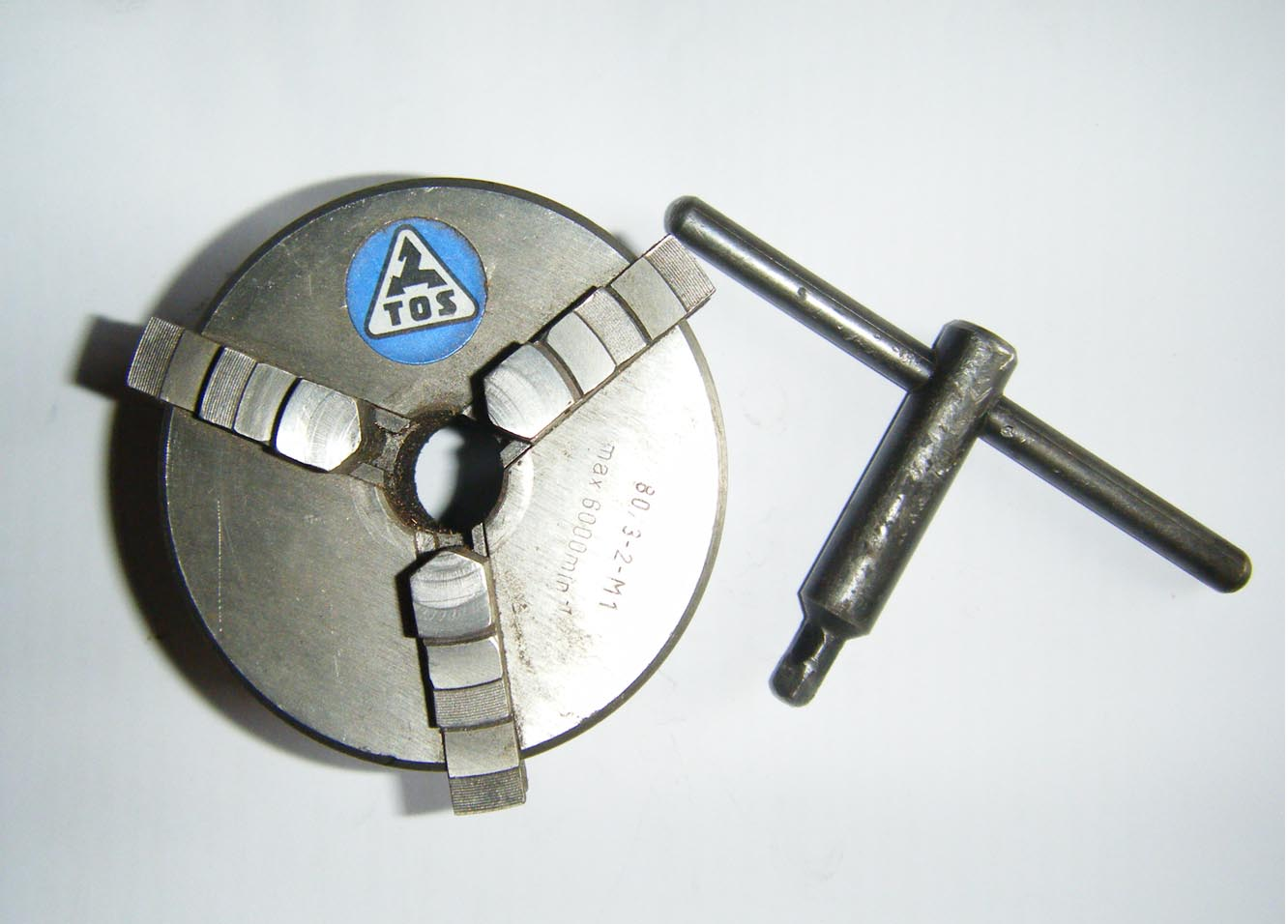 Chuck for lathe